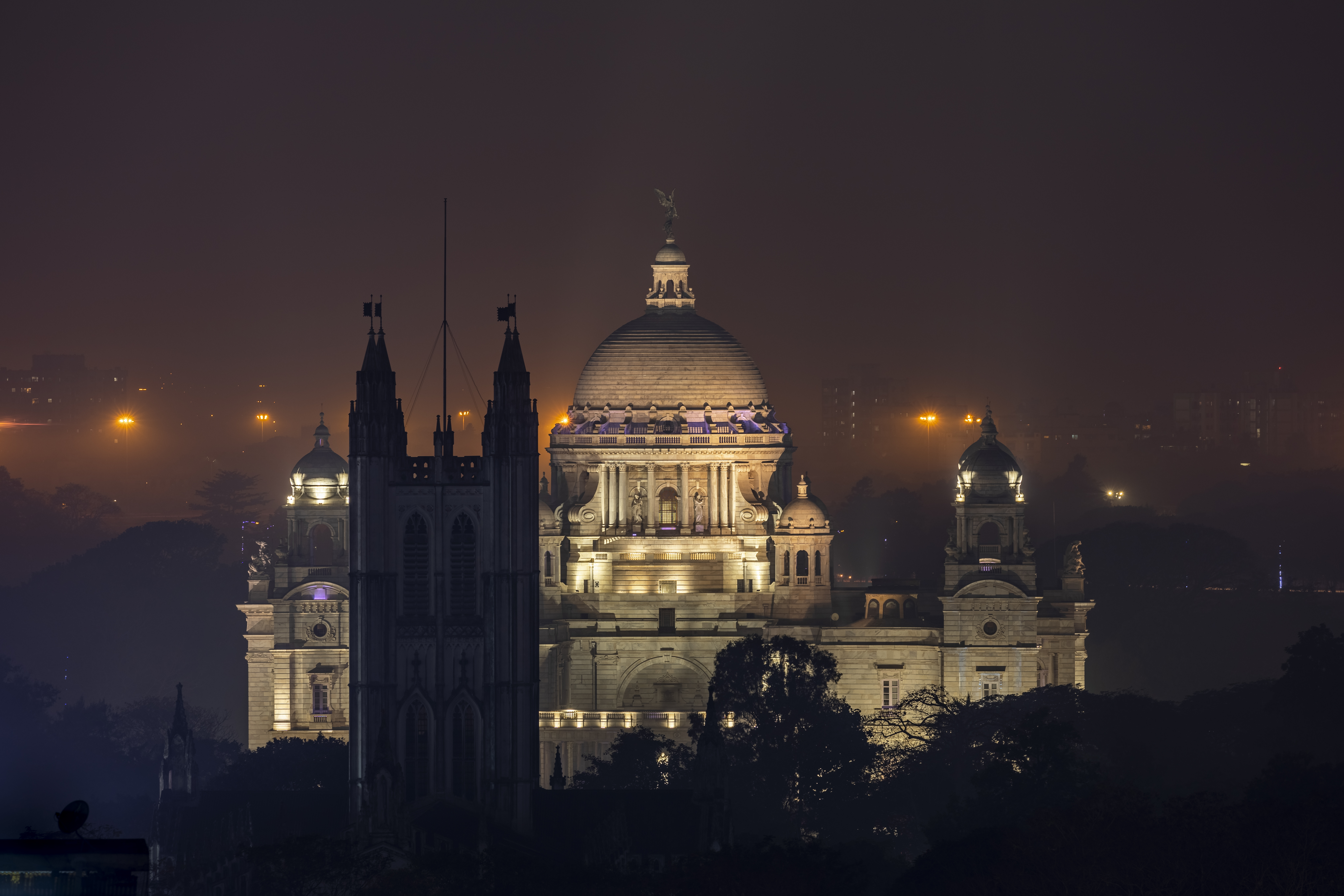 Kolkata's Victoria Memorial at night, with St. Paul's Cathedral in the foreground in silhouette